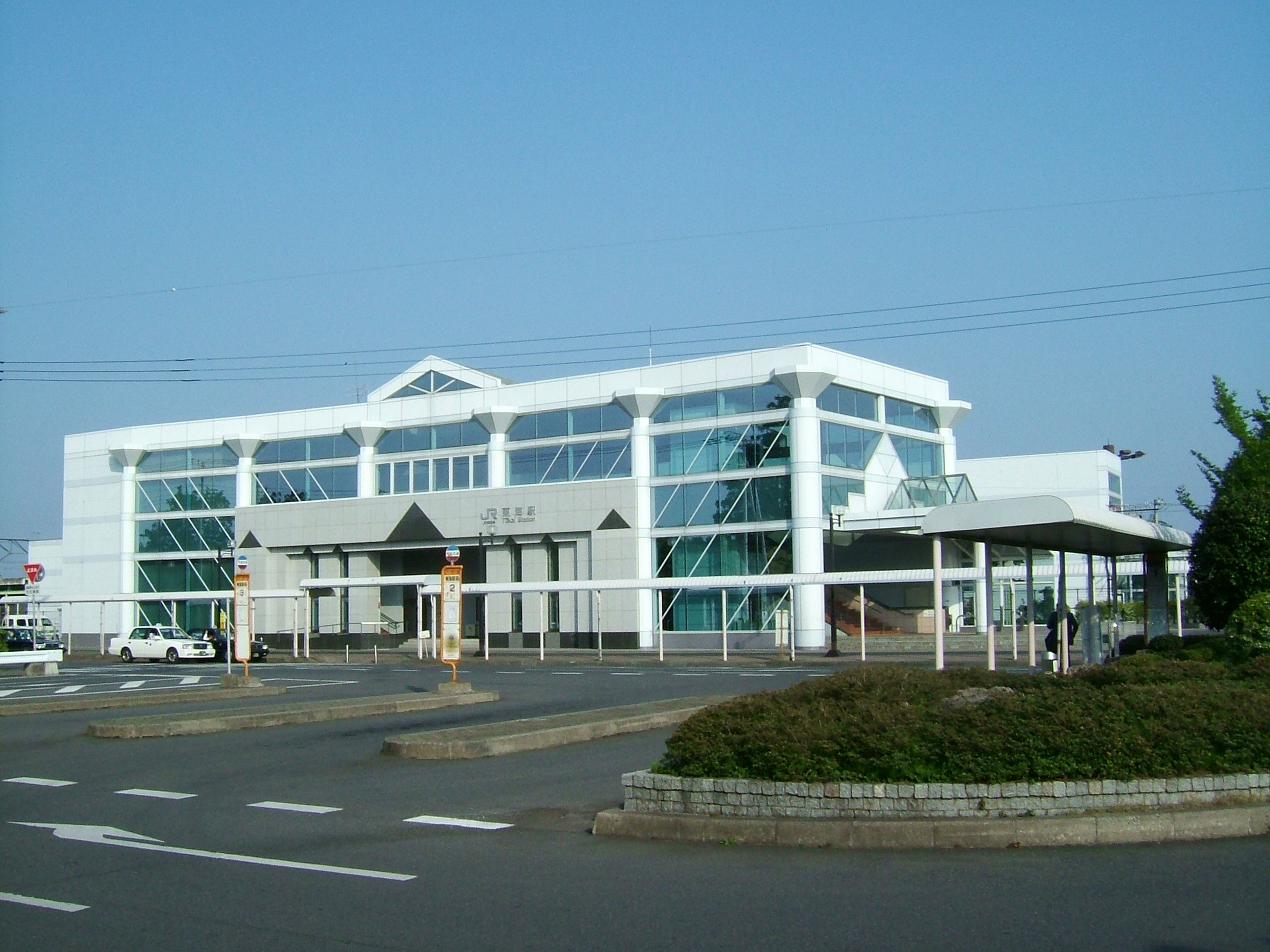 Tōkai Station west side (East Japan Railway Jōban Line)